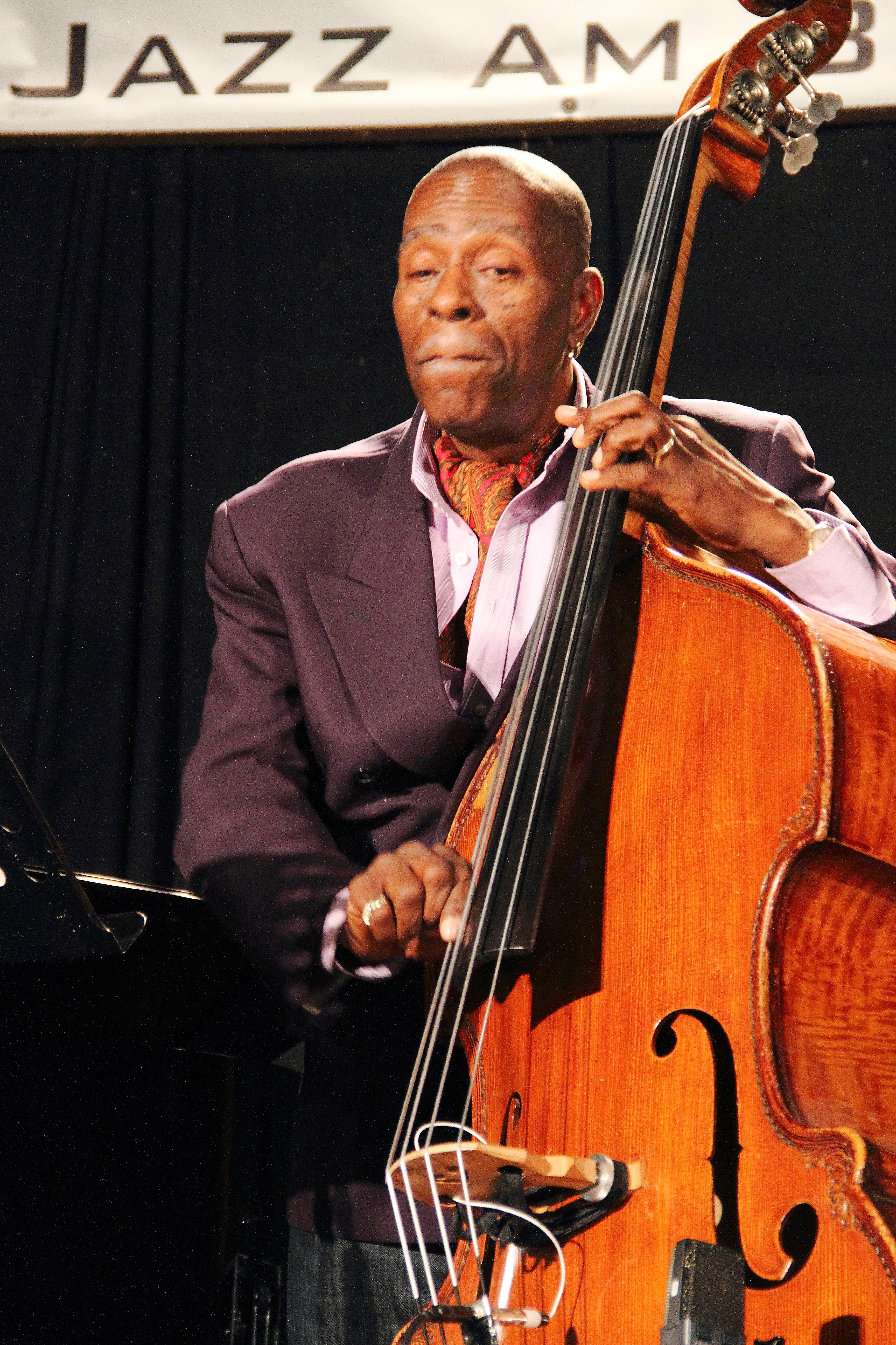 Bobby Watson "Made in America" at INNtöne Jazzfestival 2018.